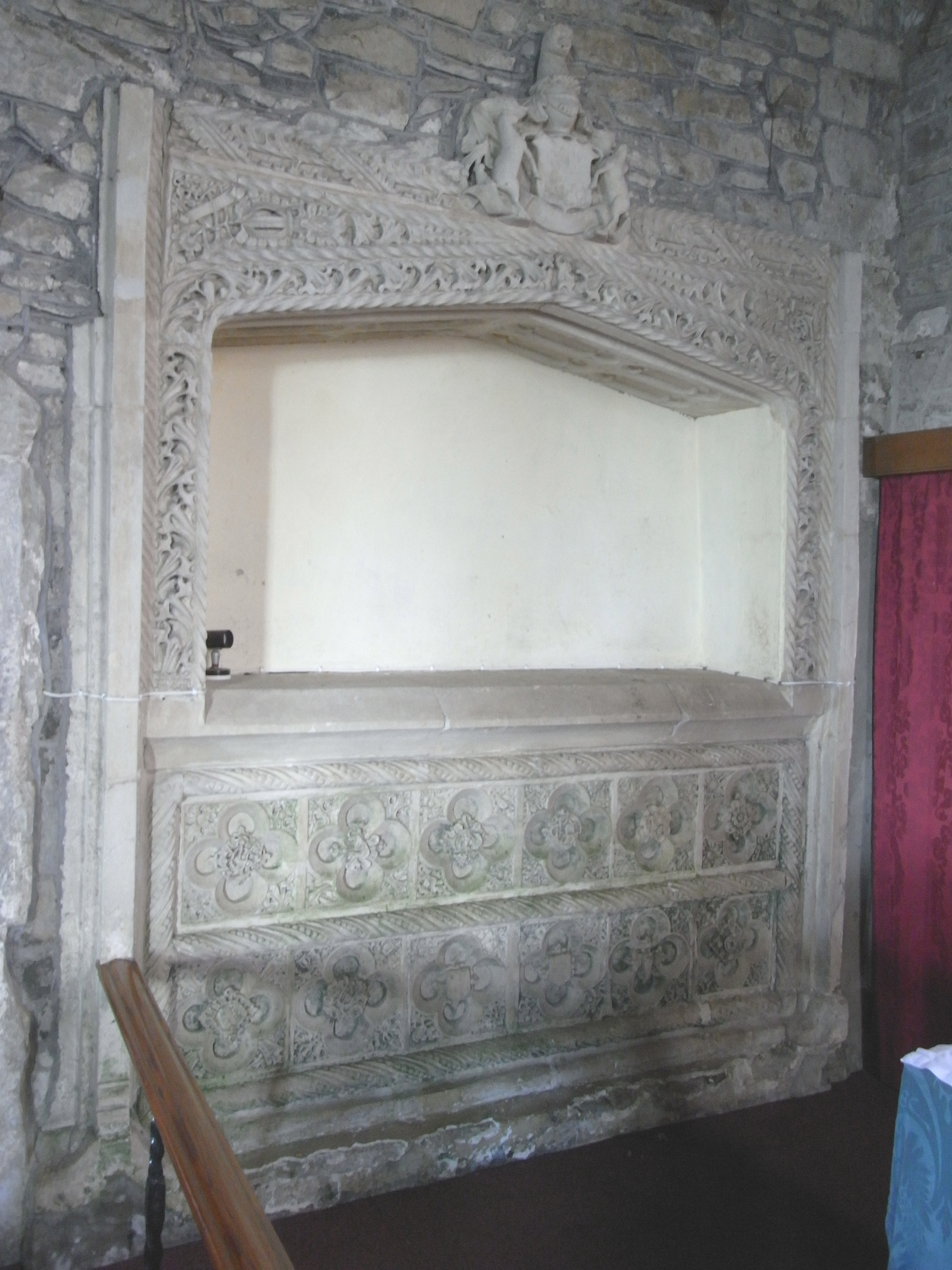 Easter Sepulchre tomb monument, north wall of chancel, Bishop's Nympton Parish Church, Devon. Generally stated to be the monument to Sir Lewis Pollard (d.1526), judge.